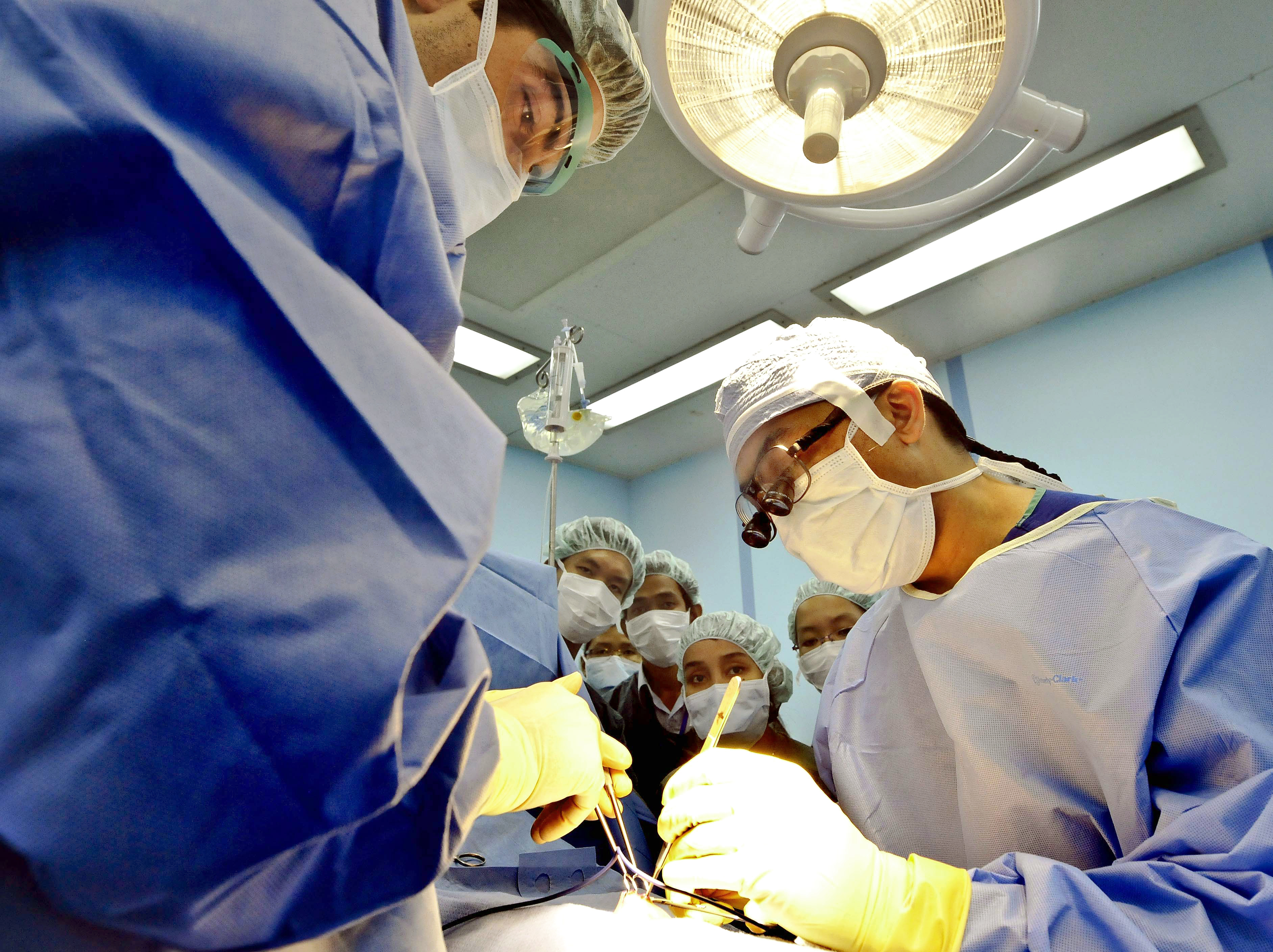 U.S. Navy Cmdr. Romeo Ignacio performs a lipoma removal surgery while Cambodian medical students watch the operation aboard the Military Sealift Command hospital ship USNS Mercy during Pacific Partnership 2012 in Sihanoukville, Cambodia, Aug 1, 2012.